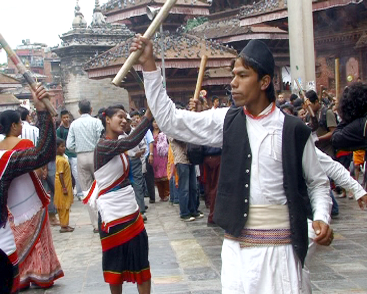 Ghintang Ghisi Dance in Basantapur Nepal.